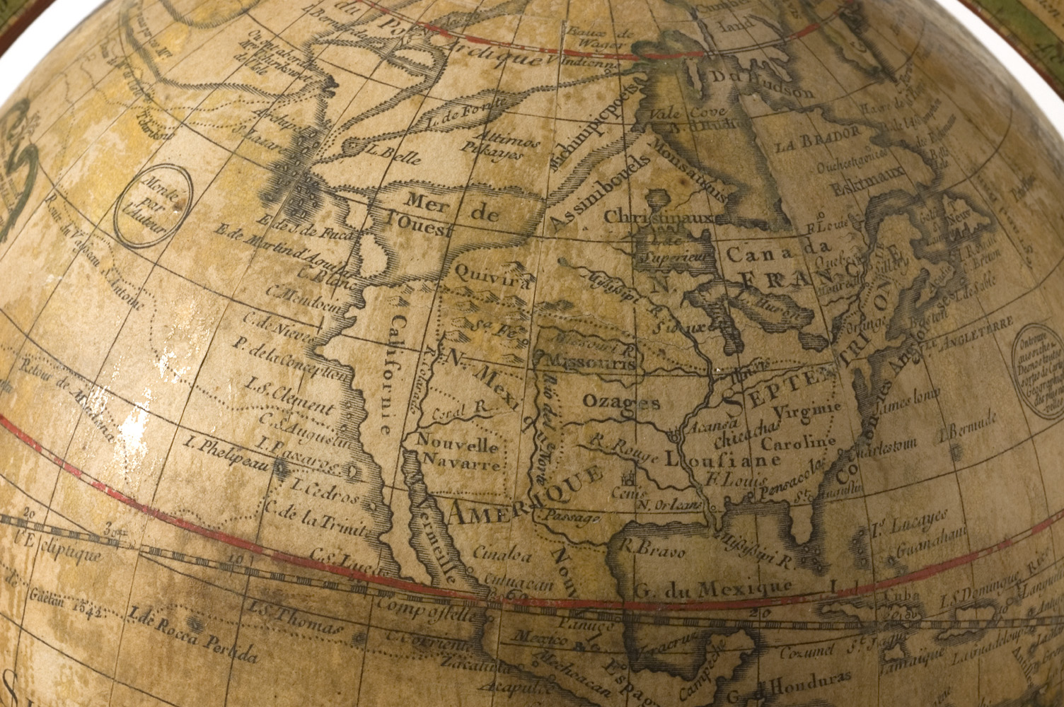 Detail of 1765 de l'Isle globe A 1765 de l'Isle globe, showing depiction of the Mississippi River and a fictional Northwest passage. Collection of the Minnesota Historical Society.